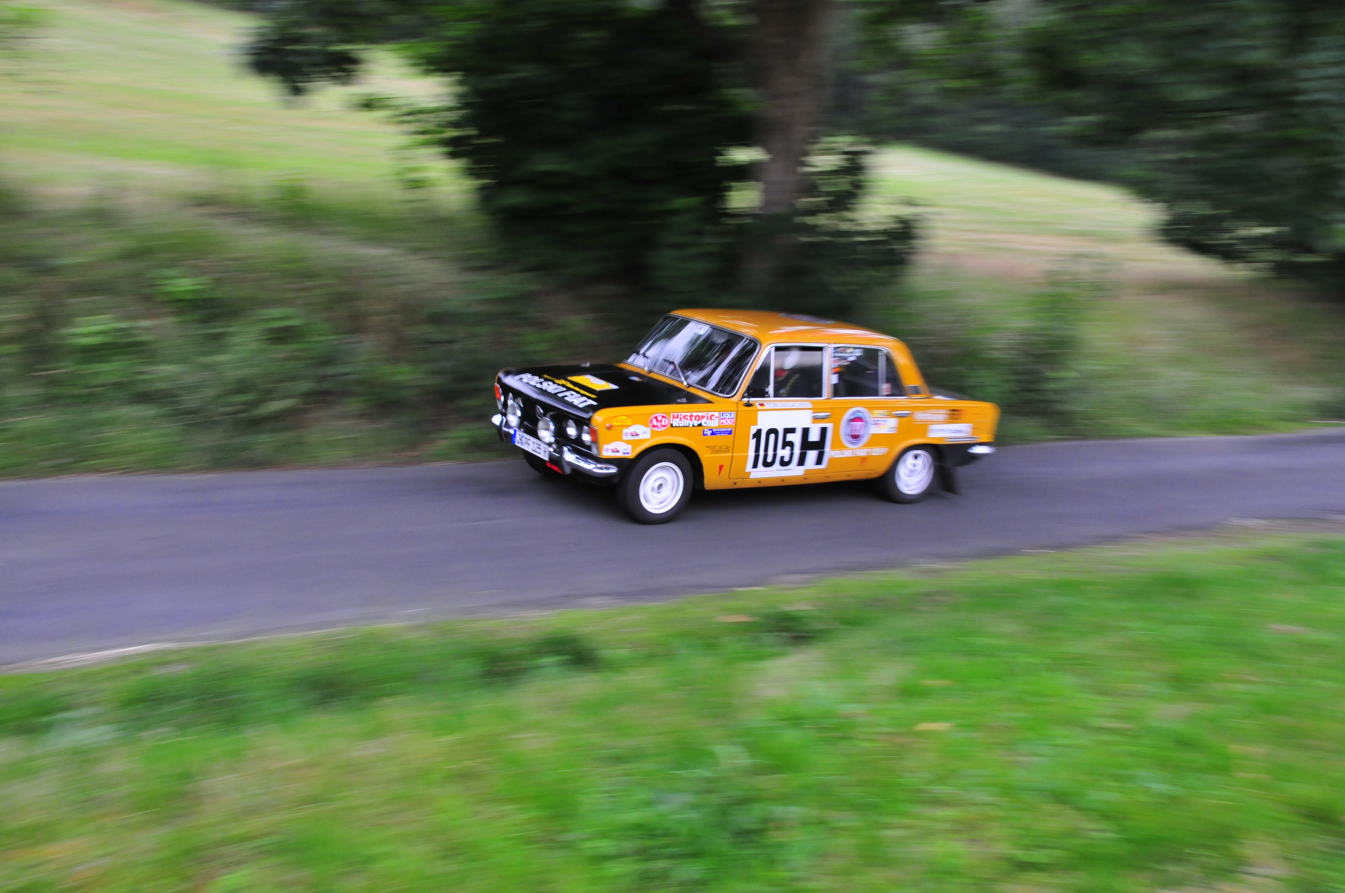 Tom Amlacher and Heiko Kneist in Polski Fiat 125p MR'73 or MR'74 during the Vogtlandrallye 2008.